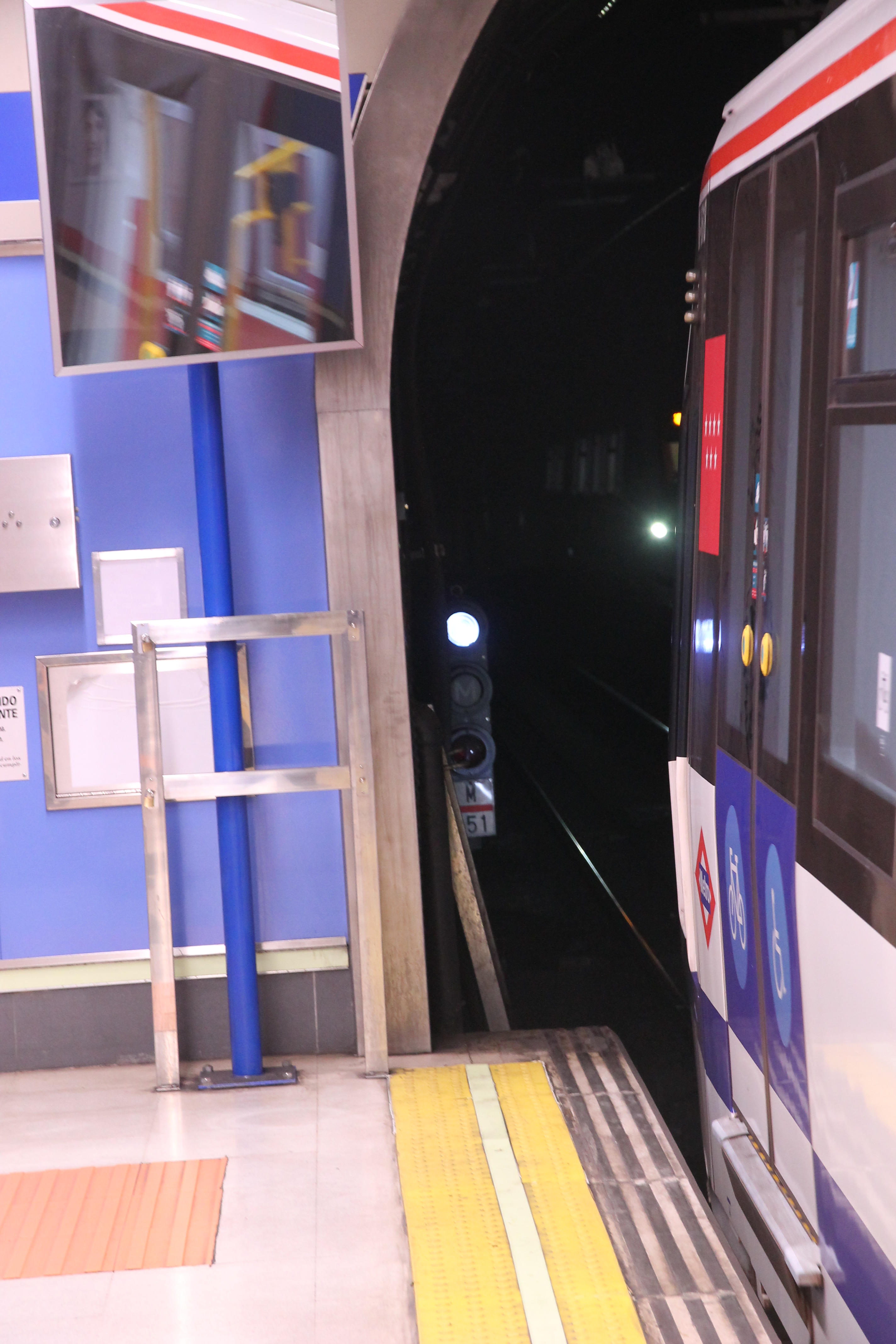 Guzmán el Bueno metro station, line 6, Madrid, railway signal